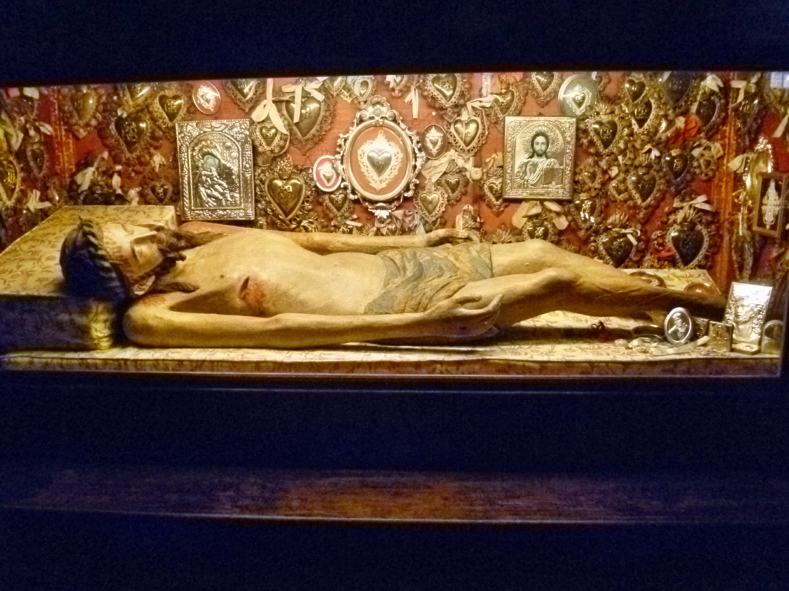 Wooden sculpture of Christ in His tomb; Chiesa di San Zaccaria, Venice, Italy